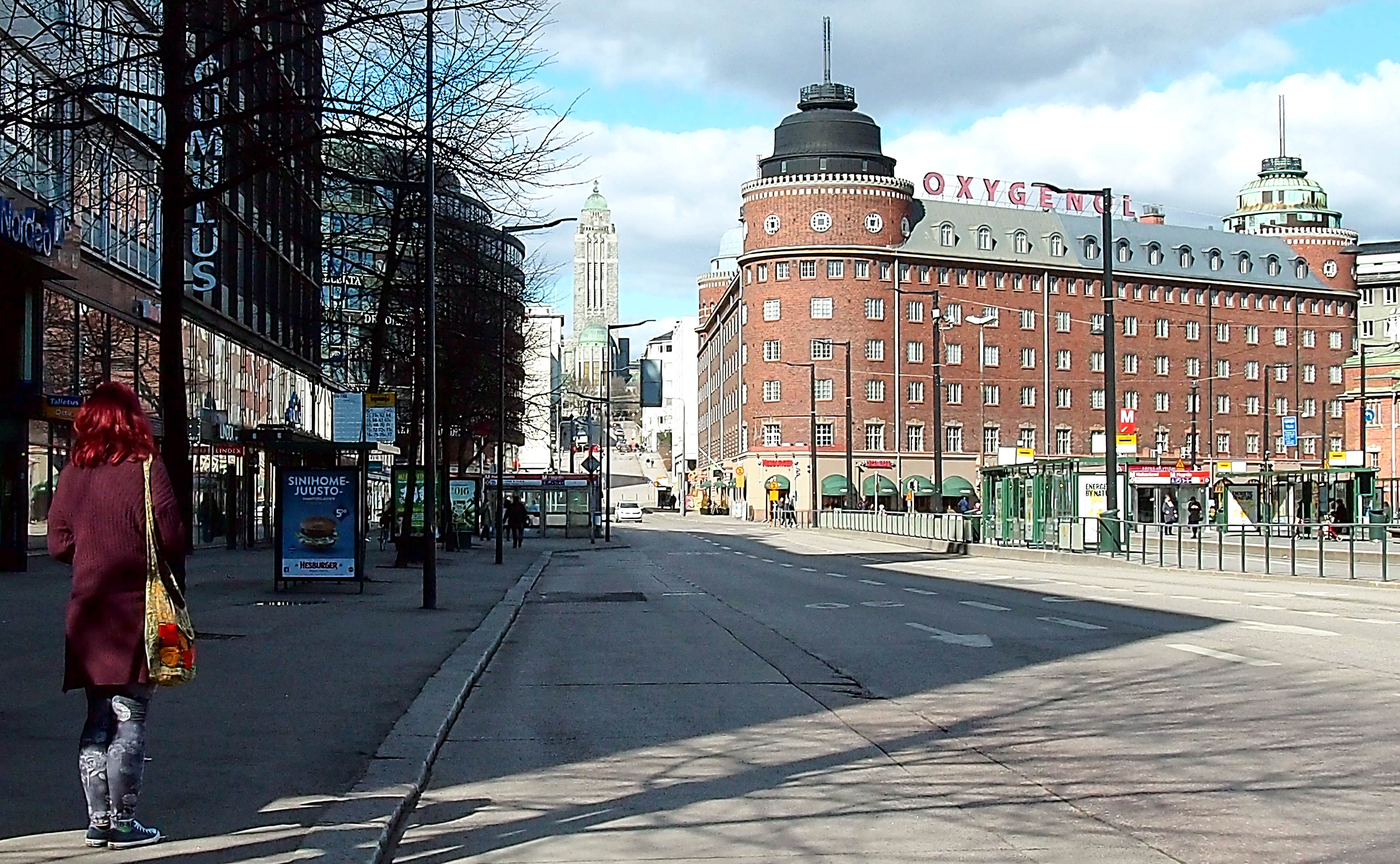 The street Siltasaarenkatu in Hakaniemi, Helsinki, Finland